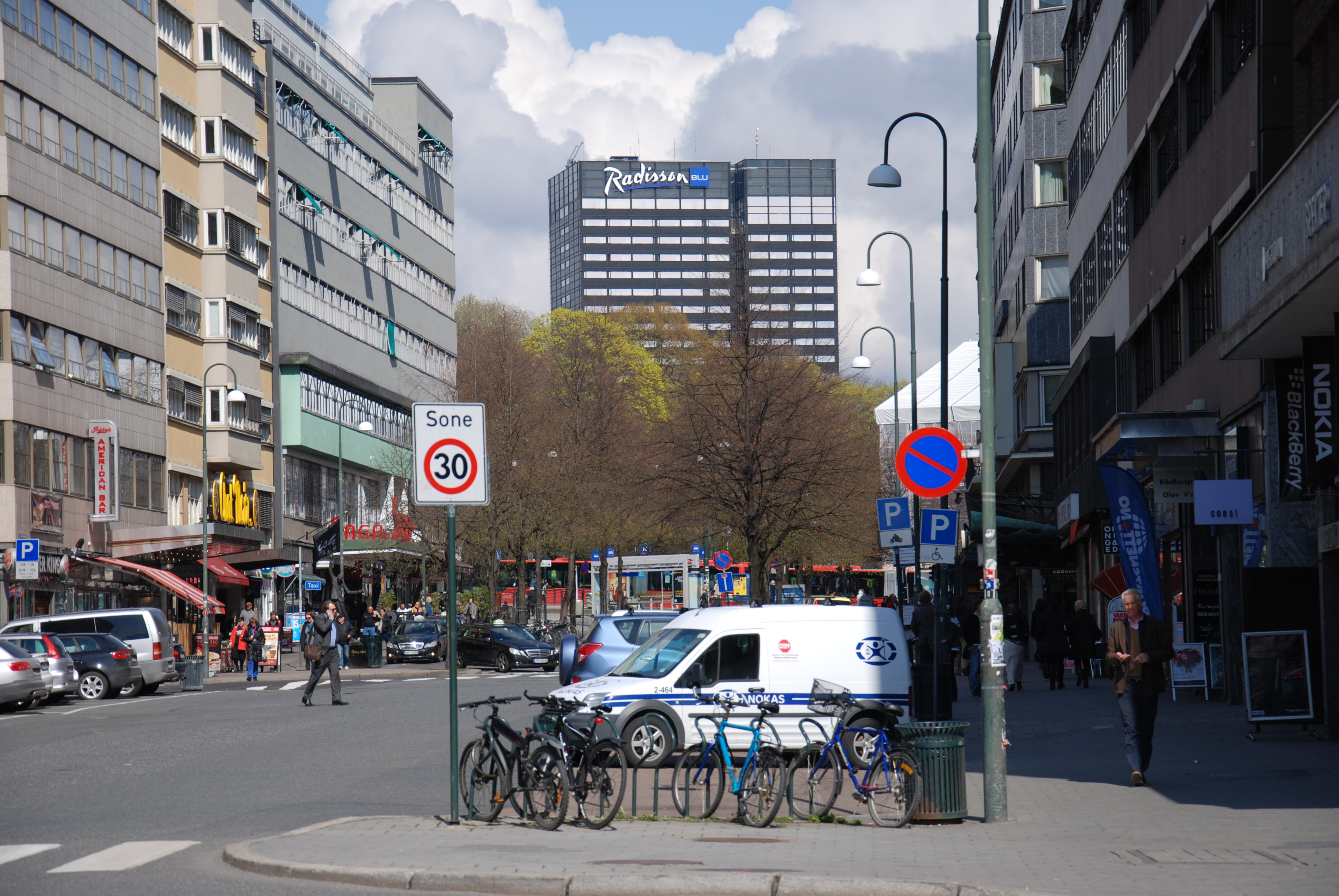 Radisson Blu Hotel Scandinavia Oslo från Olav Vs gate 01